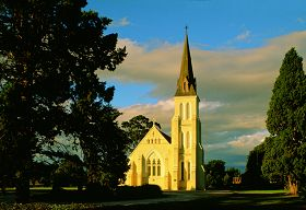 Taken myself.